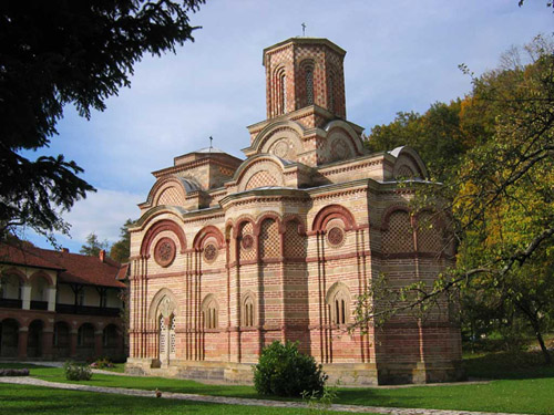 Location: Kalenic